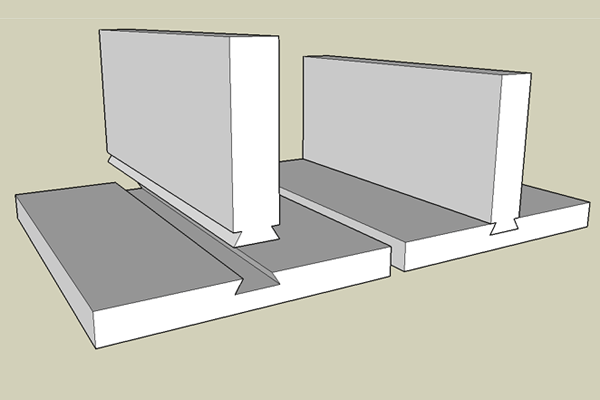 A sliding dovetail joint. Image by SilentC